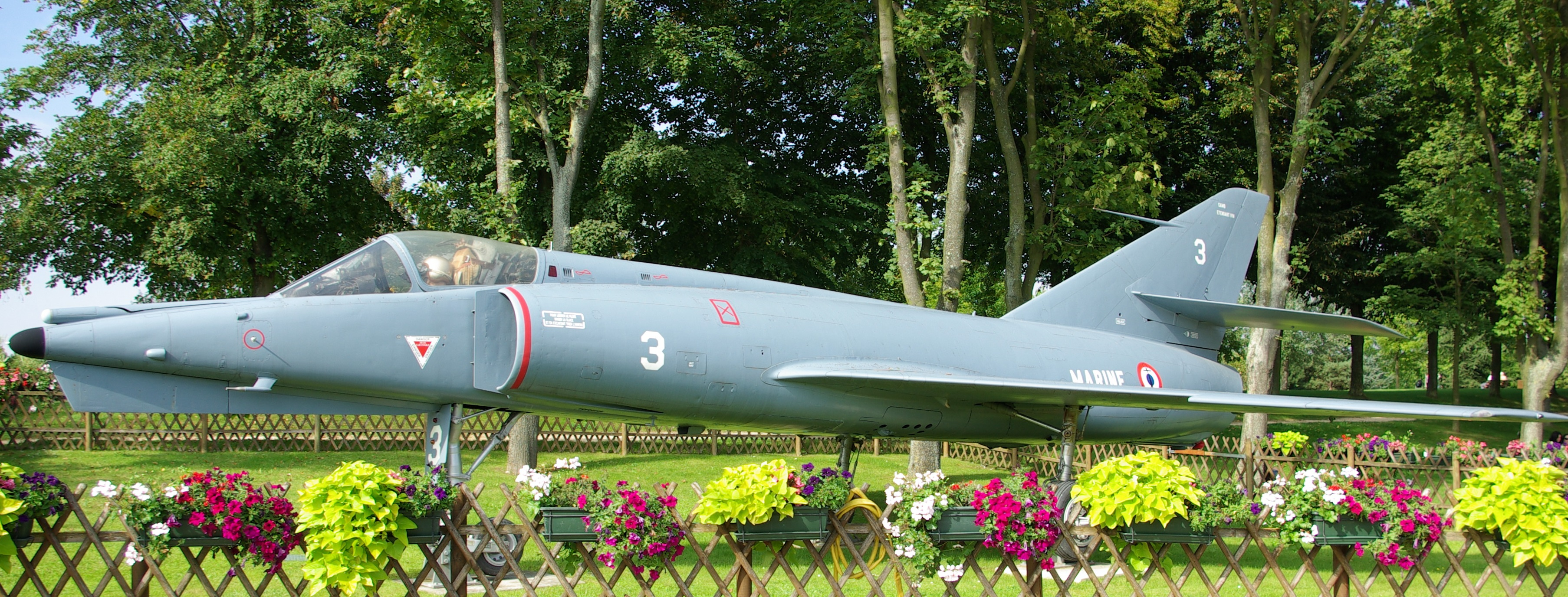 A Dassault Étendard IV M of the French navy exhibited in a park in Paray-Vieille-Poste near Orly airport.